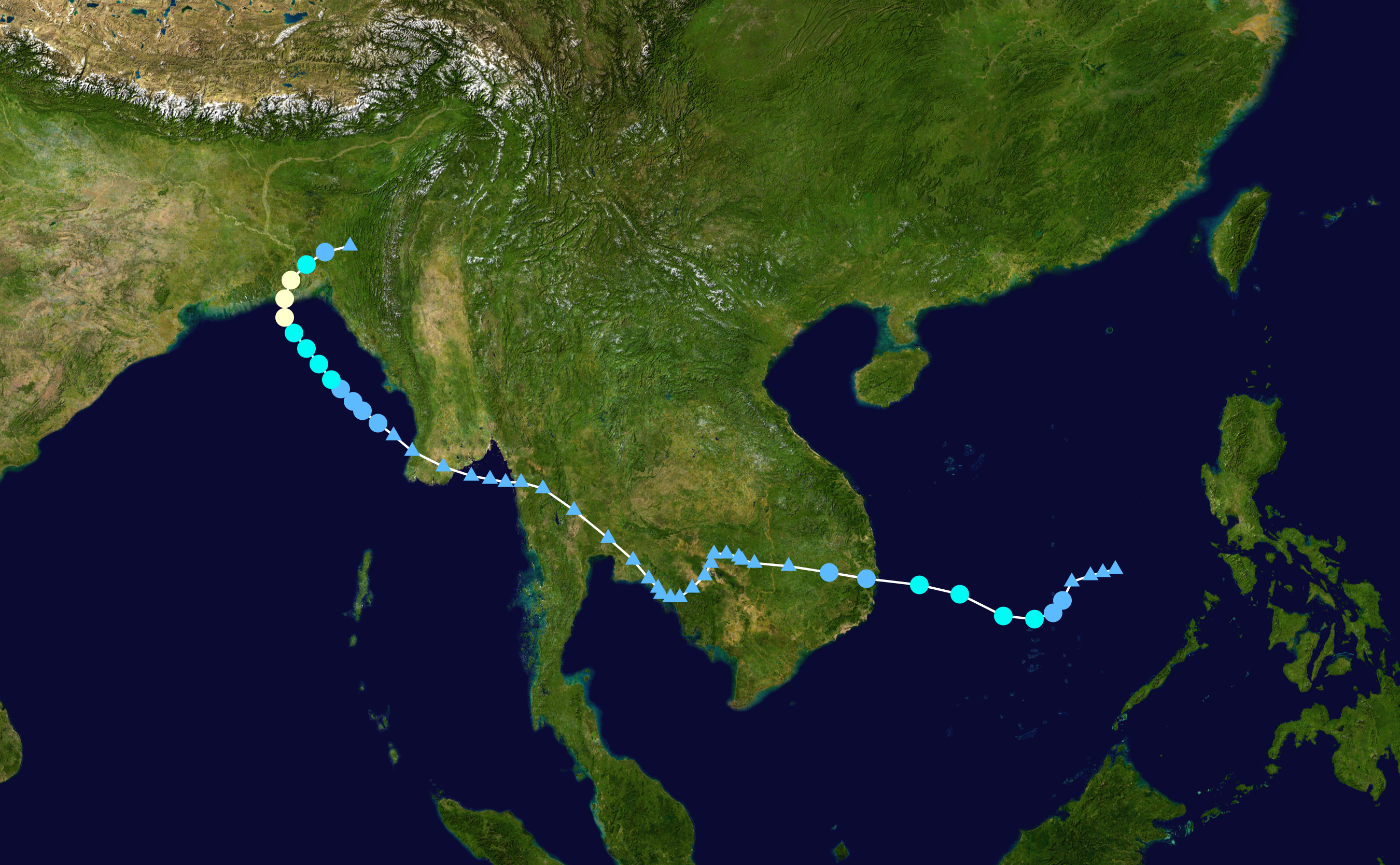 Track map of Cyclone 10B of the 1960 Pacific typhoon season. The points show the location of the storm at 6-hour intervals. The colour represents the storm's maximum sustained wind speeds as classified in the Saffir–Simpson hurricane wind scale (see below), and the shape of the data points represent the nature of the storm, according to the legend below. Saffir–Simpson hurricane wind scale Tropical depression≤38 mph≤62 km/h Category 3111–129 mph178–208 km/h Tropical storm39–73 mph63–118 km/h Category 4130–156 mph209–251 km/h Category 174–95 mph119–153 km/h Category 5≥157 mph≥252 km/h Category 296–110 mph154–177 km/h Unknown Storm typeTropical cycloneSubtropical cycloneExtratropical cyclone / Remnant low / Tropical disturbance